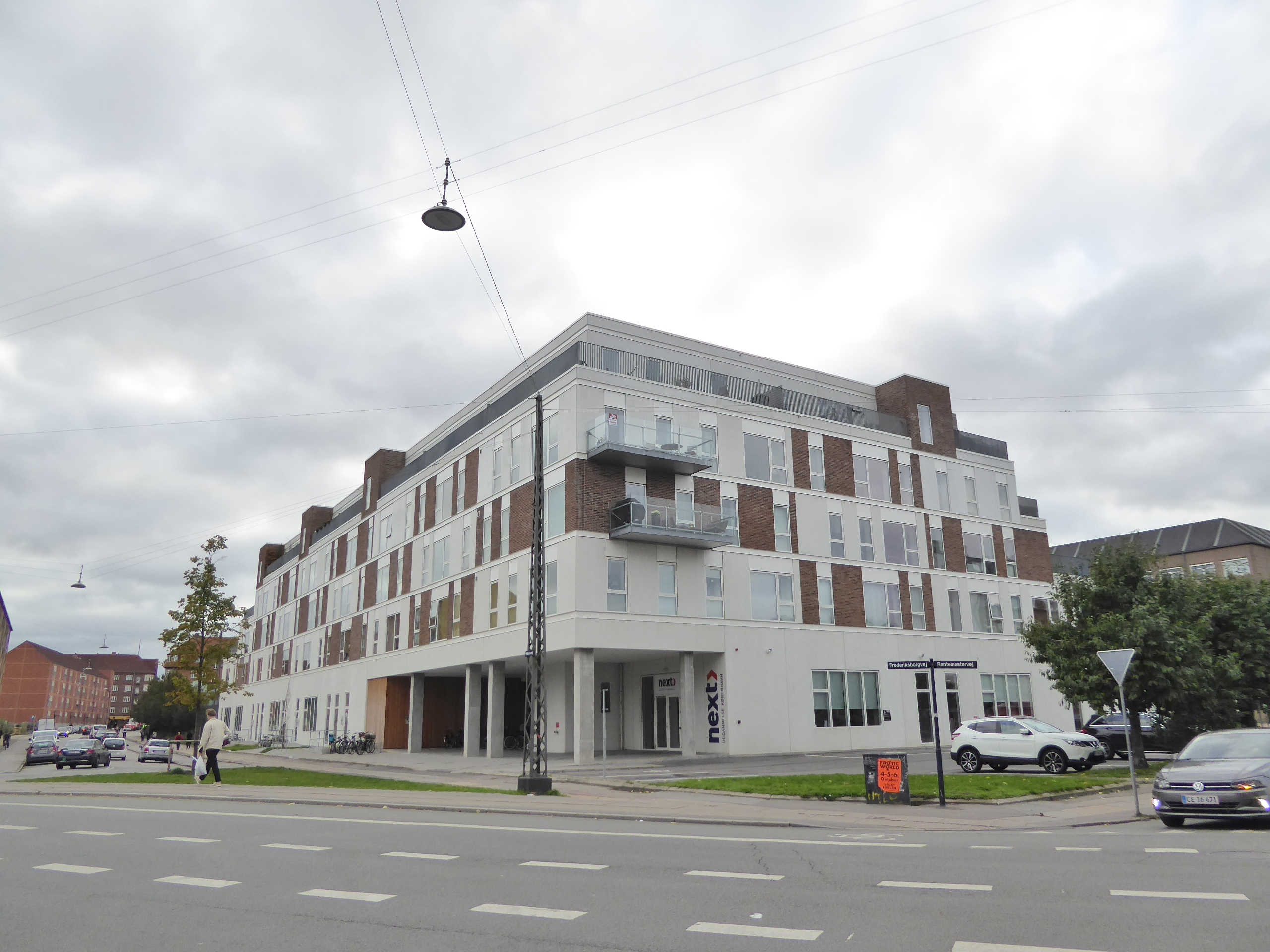 The apartment building Rentemesterhaven at the corner of Glasvej and Rentemestervej in Nordvest in Copenhagen.